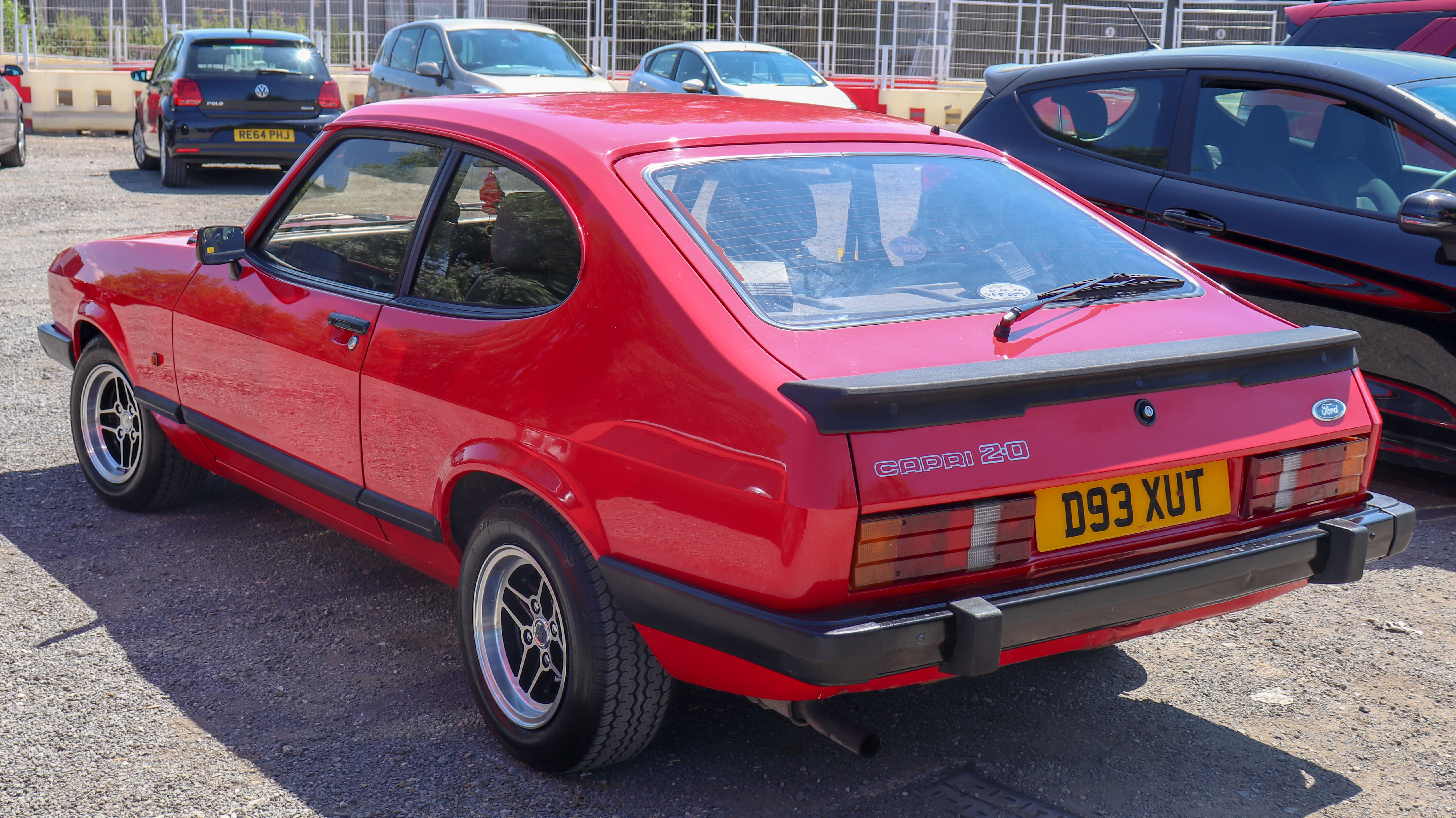 1986 Ford Capri Laser 2.0 Rear Taken at the British Motor Museum Old Ford Rally 2018, Gaydon